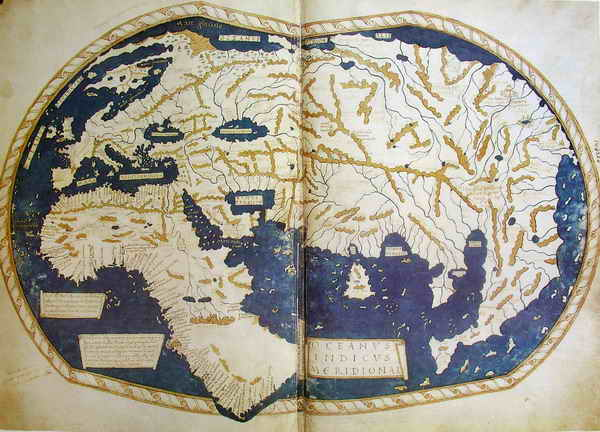 The world map of "Henricus Martellus Germanus" (Heinrich Hammer the German), Florence, c. 1489. 300 x 470 mm. The first map with the Dragon Tail. It is a mixture of Ptolemy, recent Portuguese discoveries and unknown sources. Displays the Cape of Good Hope, rounded by Bartolomeo Dias in 1488.